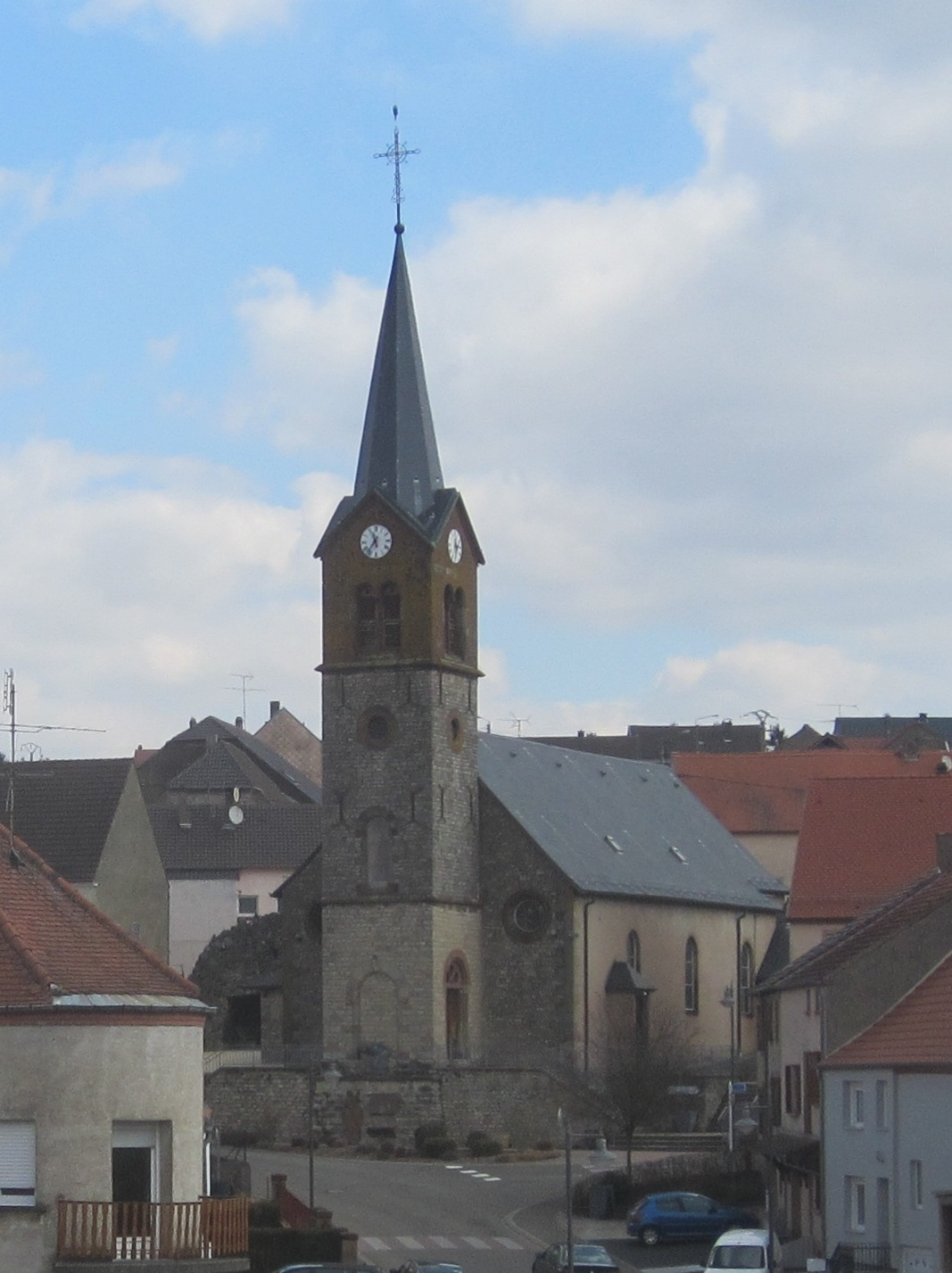 Parish church of the Nativity of the Virgin, Etting, Moselle, France .